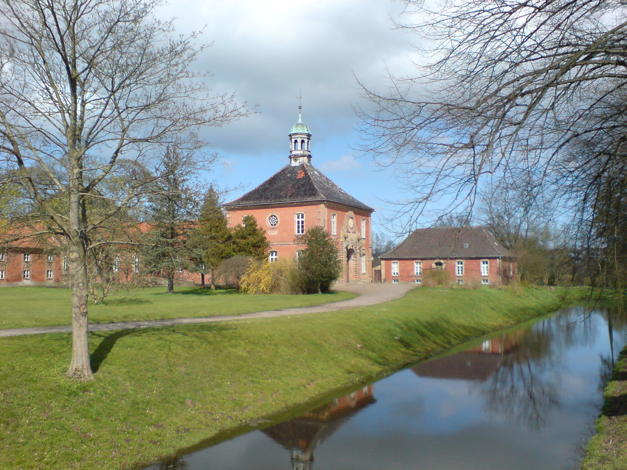 Bothmer Palace, riding hall